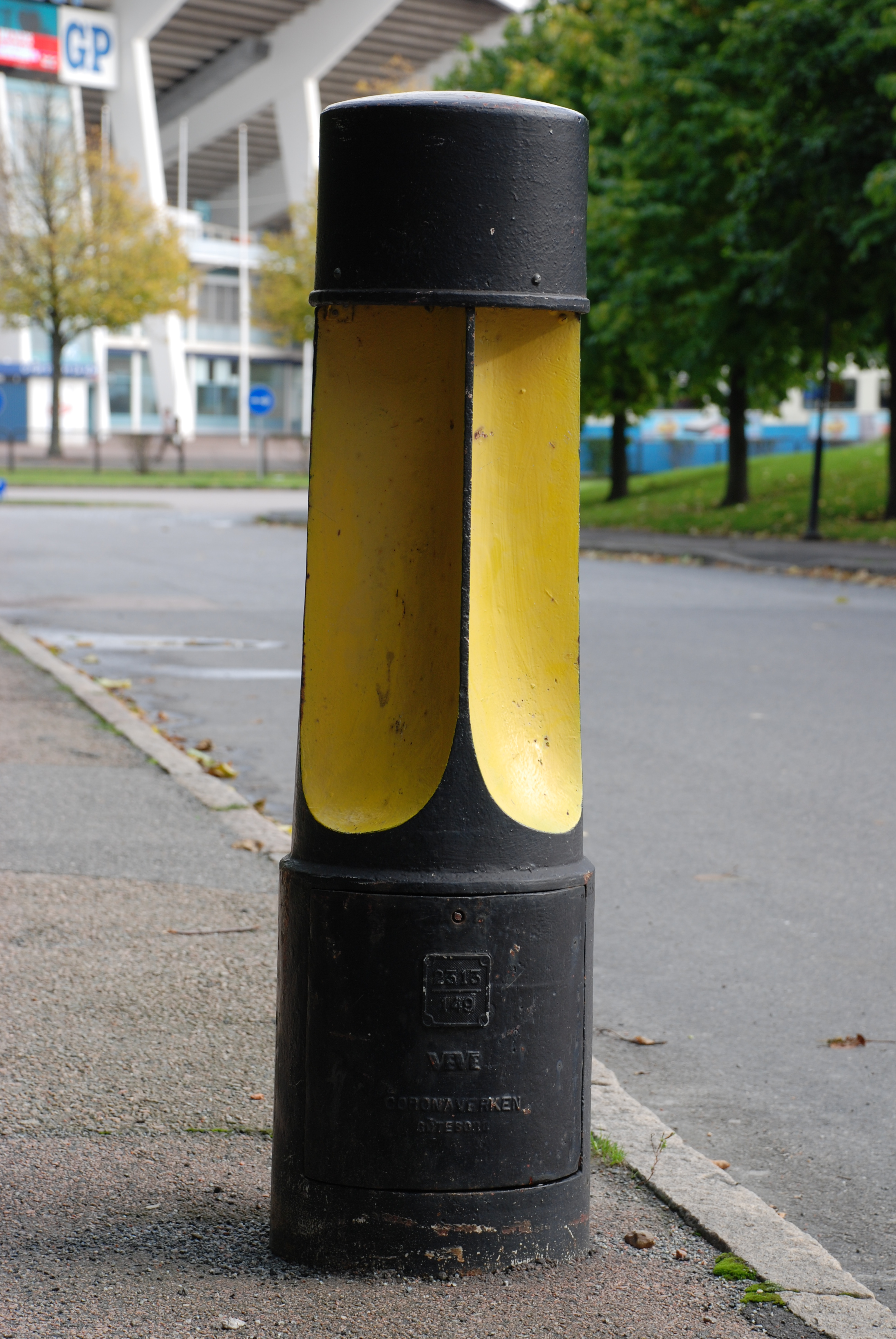 Fontellare, a yellow-black pillar with lighting, was placed on the middle refuge of a pedestrian crossing to make it clearly marked. This one, manufactured at Götaverken, is placed in front of the main police station at Skånegatan in Göteborg. The construction is named after the chief constable in Göteborg during the 1930´s, Ernst Fontell.